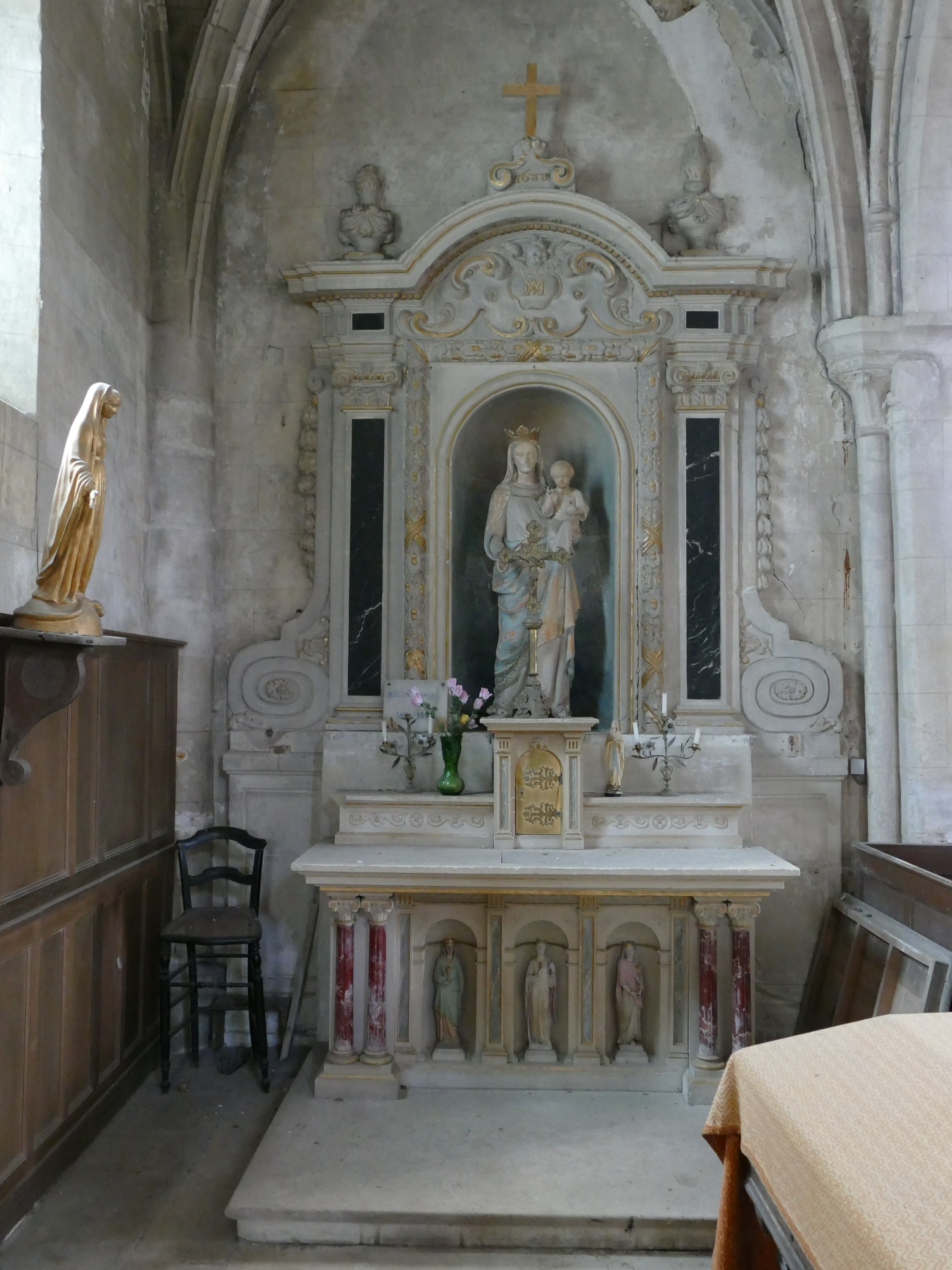 Saint-Denis' church in Ver-sur-Launette (Oise, Picardie, France).